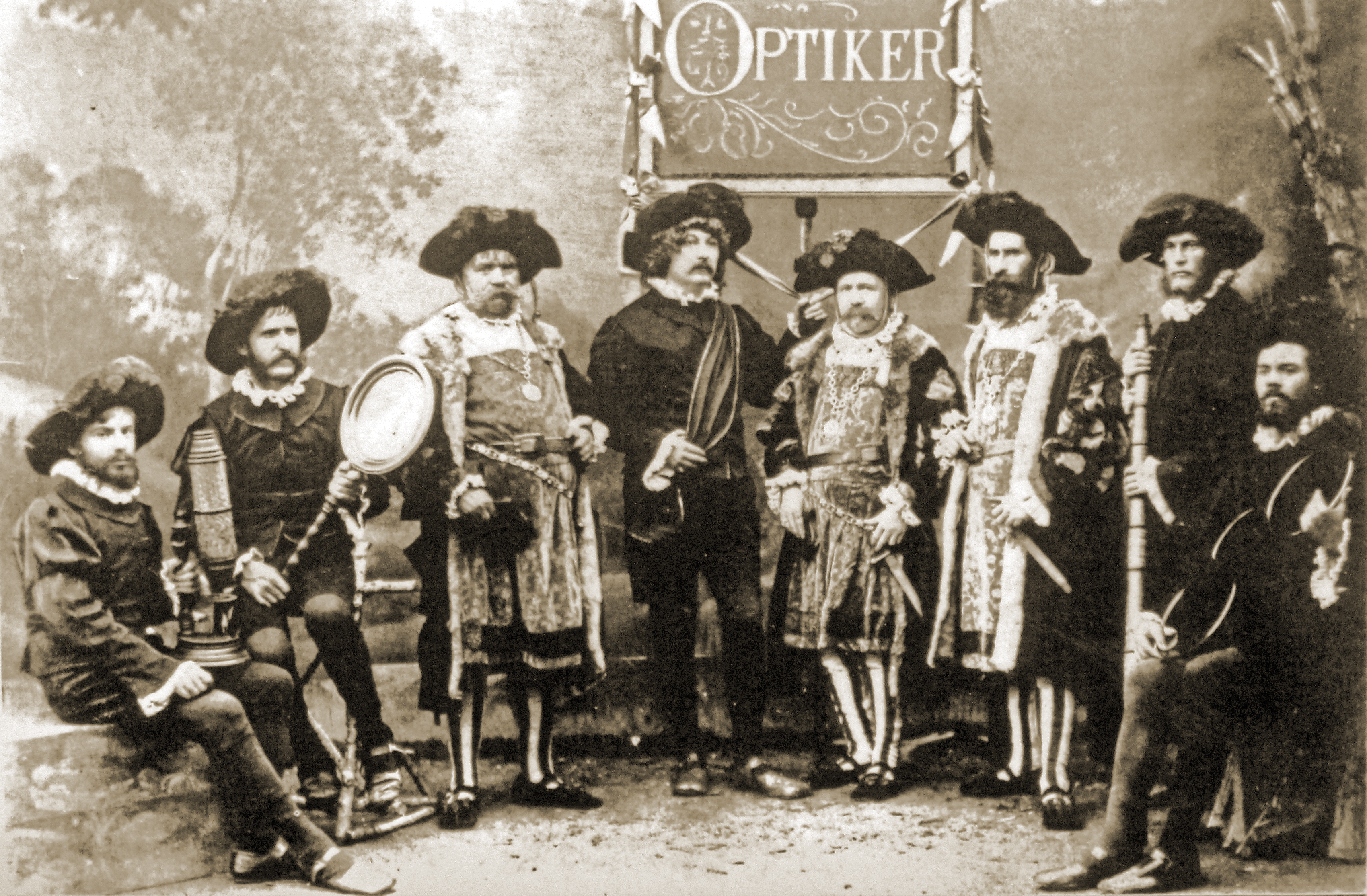 The group of opticians in the procession of 1879 on the occasion of the 25-year-old wedding of Emperor Franz Josef I. Image taken at an exhibition in the Wiener Neustadt archive.